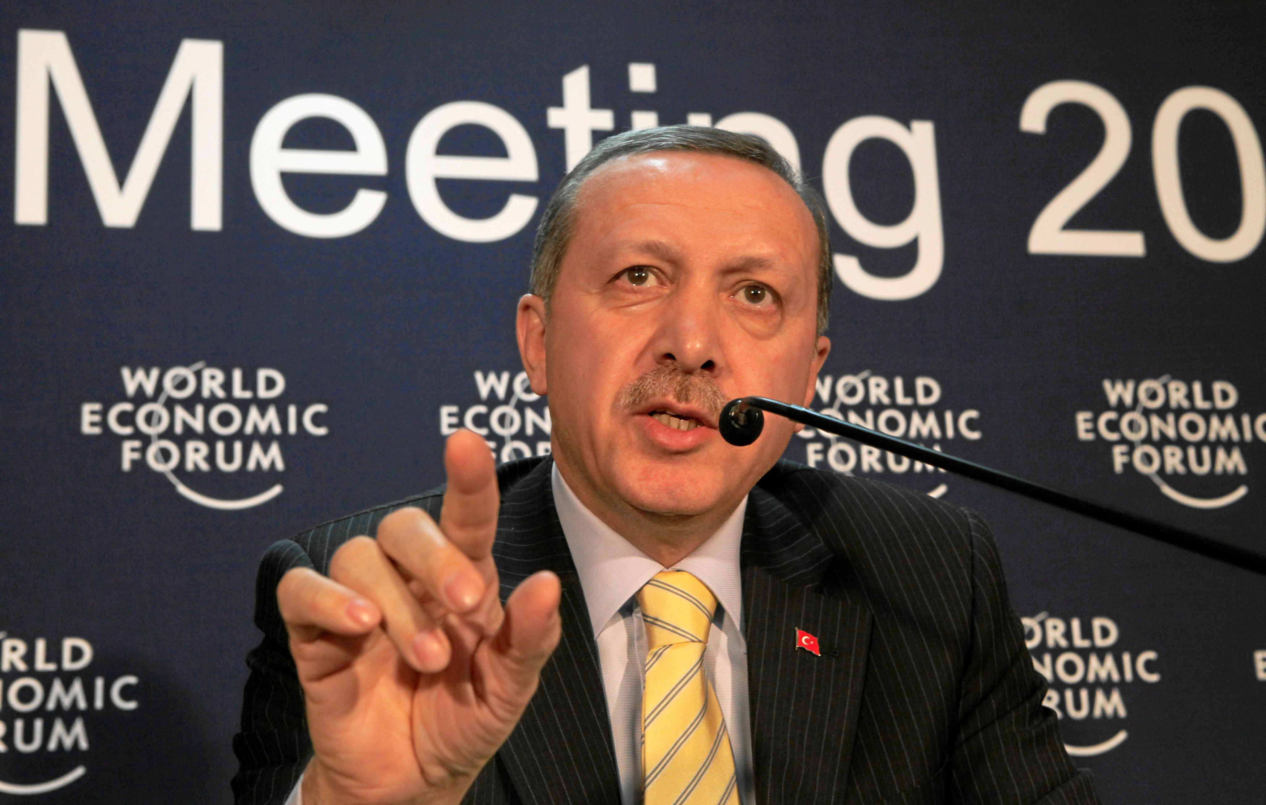 Recep Tayyip Erdogan, Prime Minister of Turkey